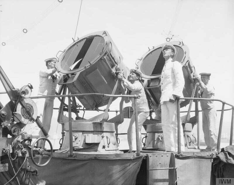 IWM caption : "Searchlight operators on board the battleship HMS AGAMEMNON recreating the moment they illuminated Zeppelin LZ. 85 allowing the battleship's anti-aircraft guns to bring down the airship. LZ.85 crashed in the marshes at the mouth of the Vardar on 5 May 1916".